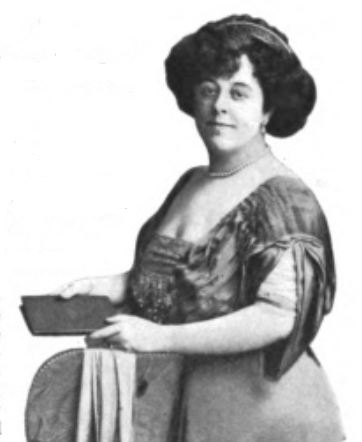 Lady Laura Troubridge, British novelist and etiquette writer.